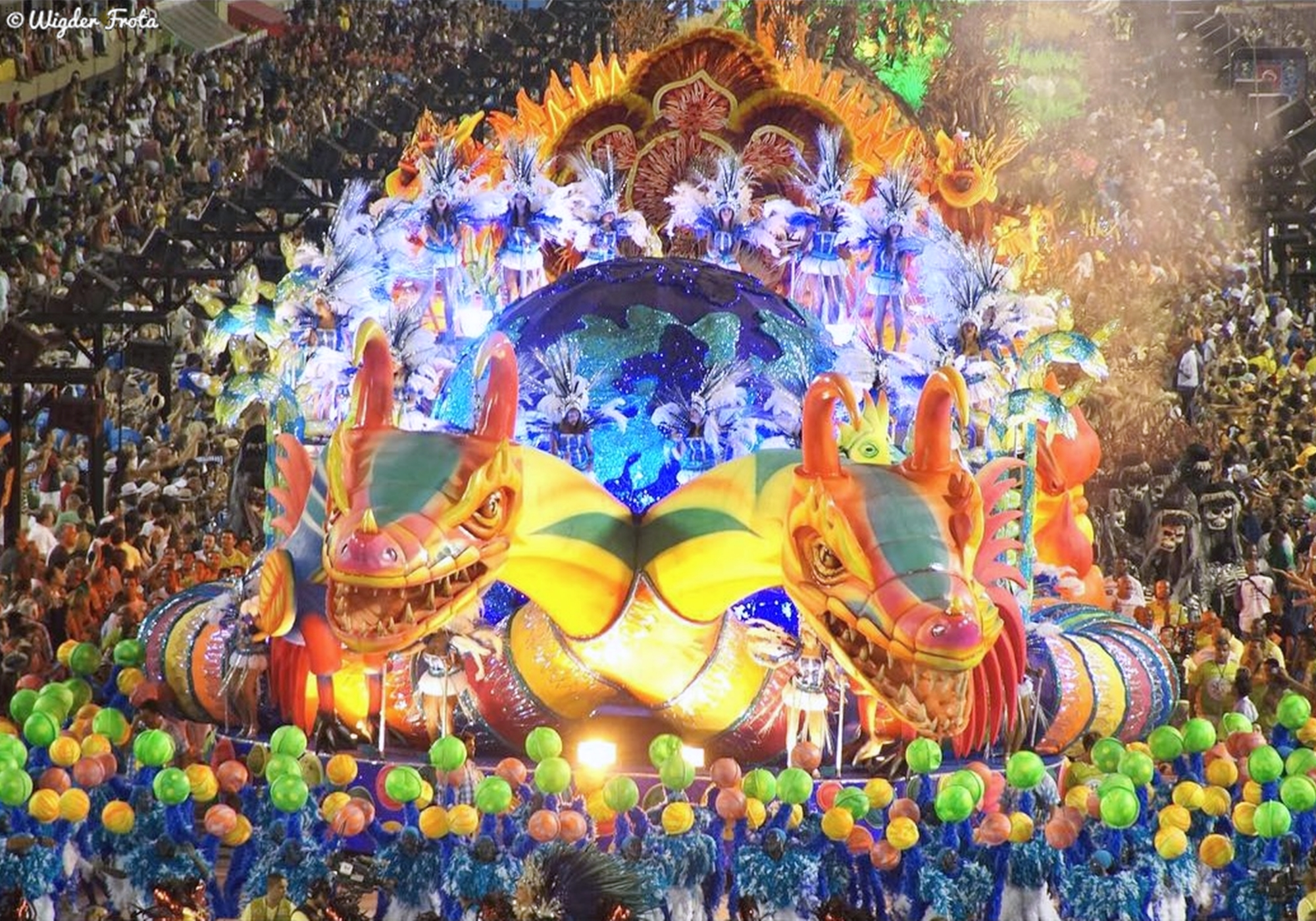 From the Series "Samba Schools, Rio de Janeiro" Carnival 2013 Photo: Wigder Frota